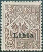 The first postage stamp of Italian Libya, 1c, 1912, overprint, Scott #1.